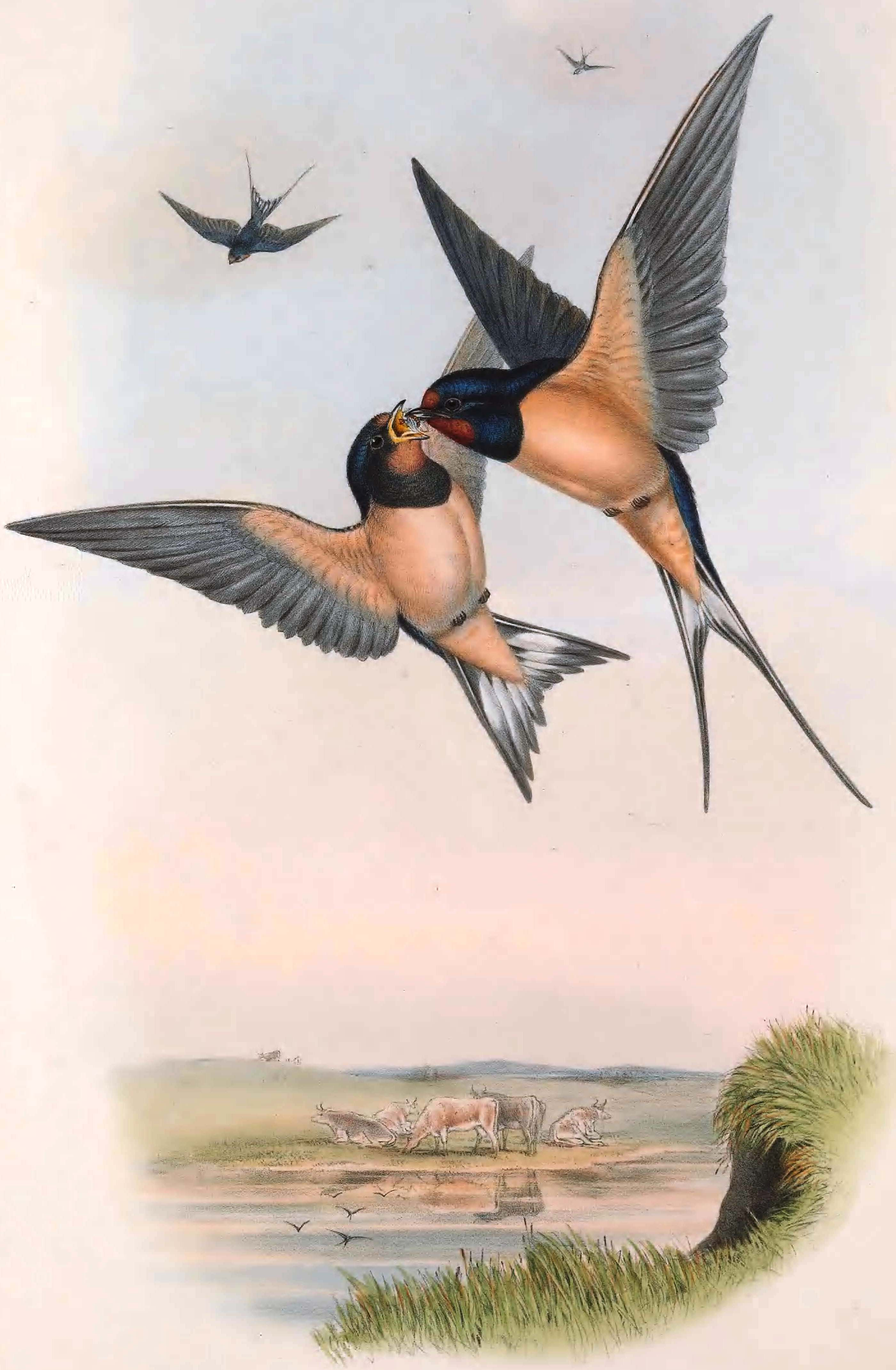 Hirundo rustica